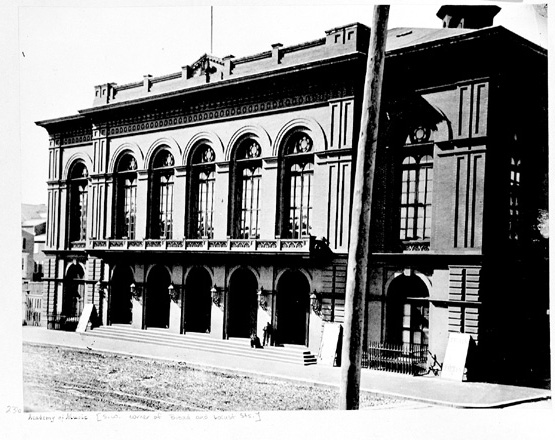 Academy of Music, Philadelphia, Pennsylvania, USA (1870)